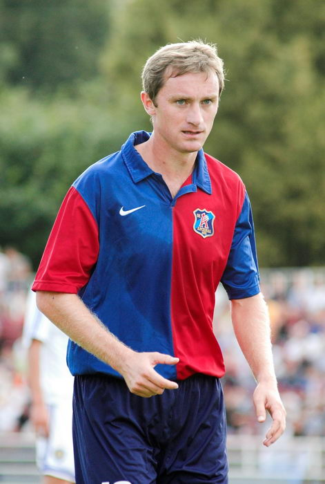 Andriy Vorobey (Arsenal Kyiv)